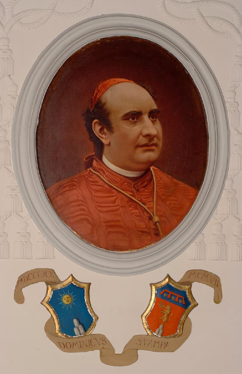 Photo of a portrait of Card. Svampa (1851-1907)